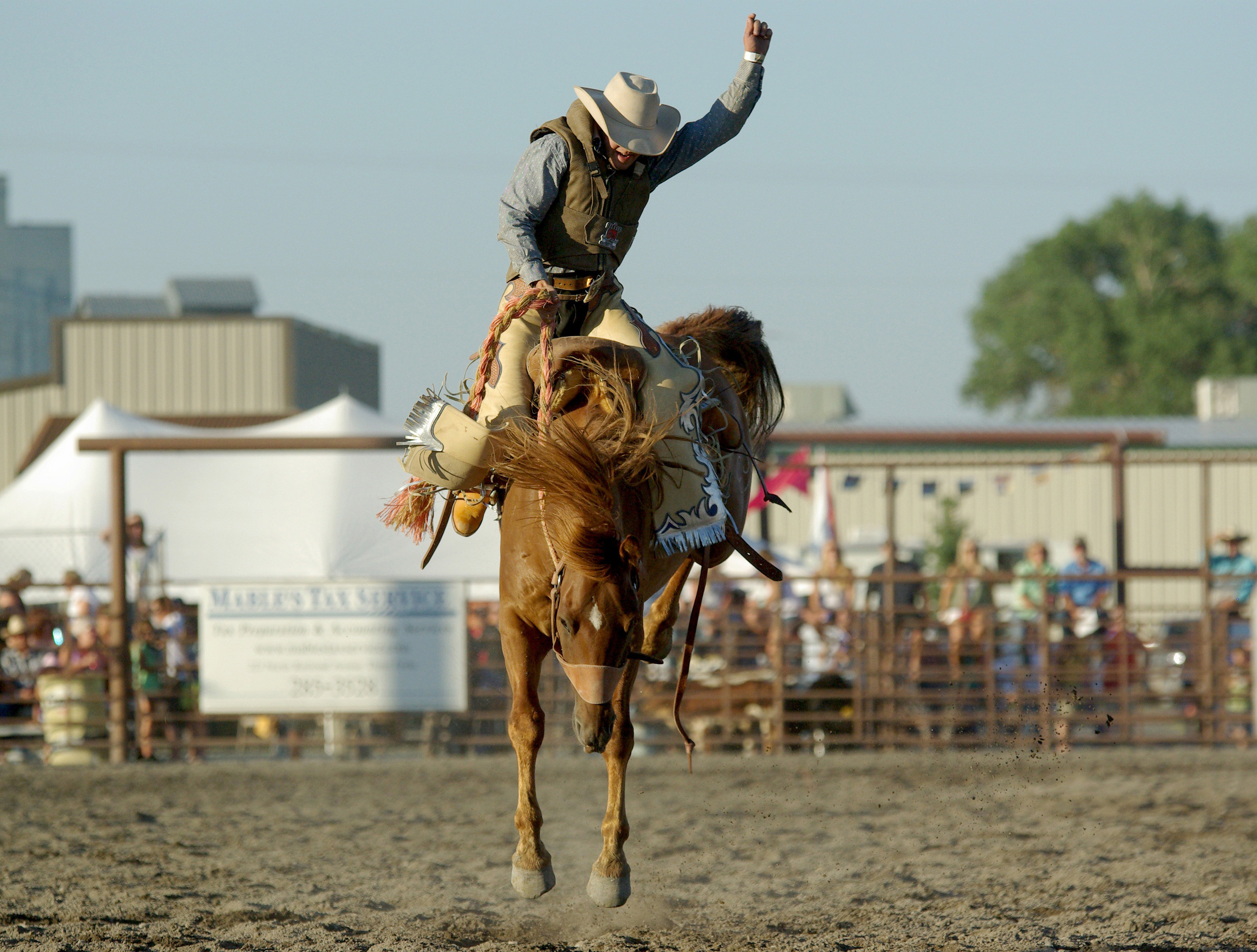 A cowboy riding a saddlebronc during a rodeo, most likely in Montana, US. The advertising sign behind the rider is for Mable's Tax Service, 223 Main Street, Three Forks, MT 59752, Phone: (406) 285-3528